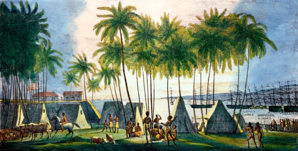 Port d'Hanarourou (Port of Honolulu), 1816. Louis Choris, artist. Published in Voyage Pittoresque du Autour du Monde, Paris, 1822. Description [Paris : Imprimerie Firmin Didot, 1822]. 1 print : lithograph, hand col.; 16.5 x 33 cm. Notes Pl. no. [54] of: Voyage pittoresque autour du monde /Louis Choris.